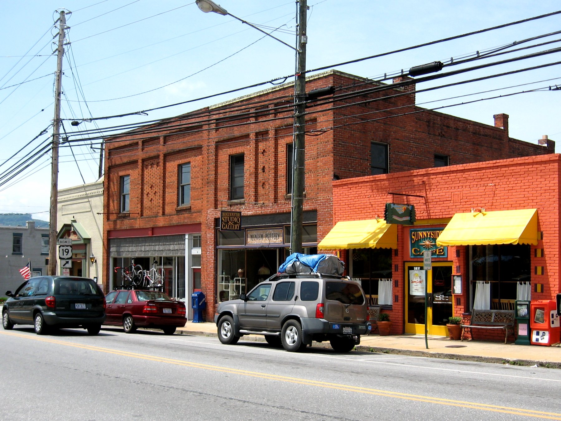 Main Street, Sunnyside Cafe, Downtown Weaverville NC